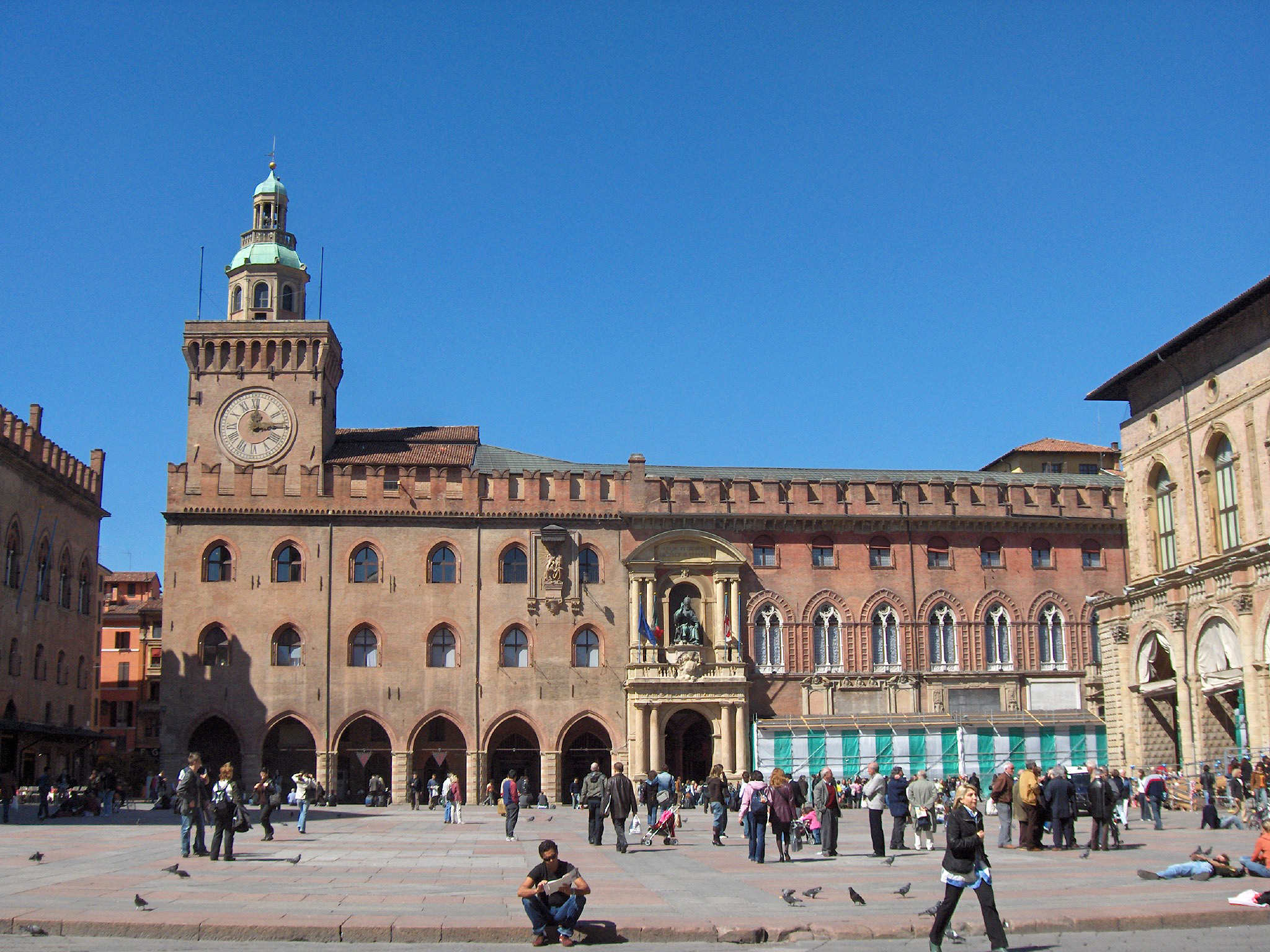 Palazzo d'Accursio (or the Municipal Palace) on the Main Square, Bologna, Italy